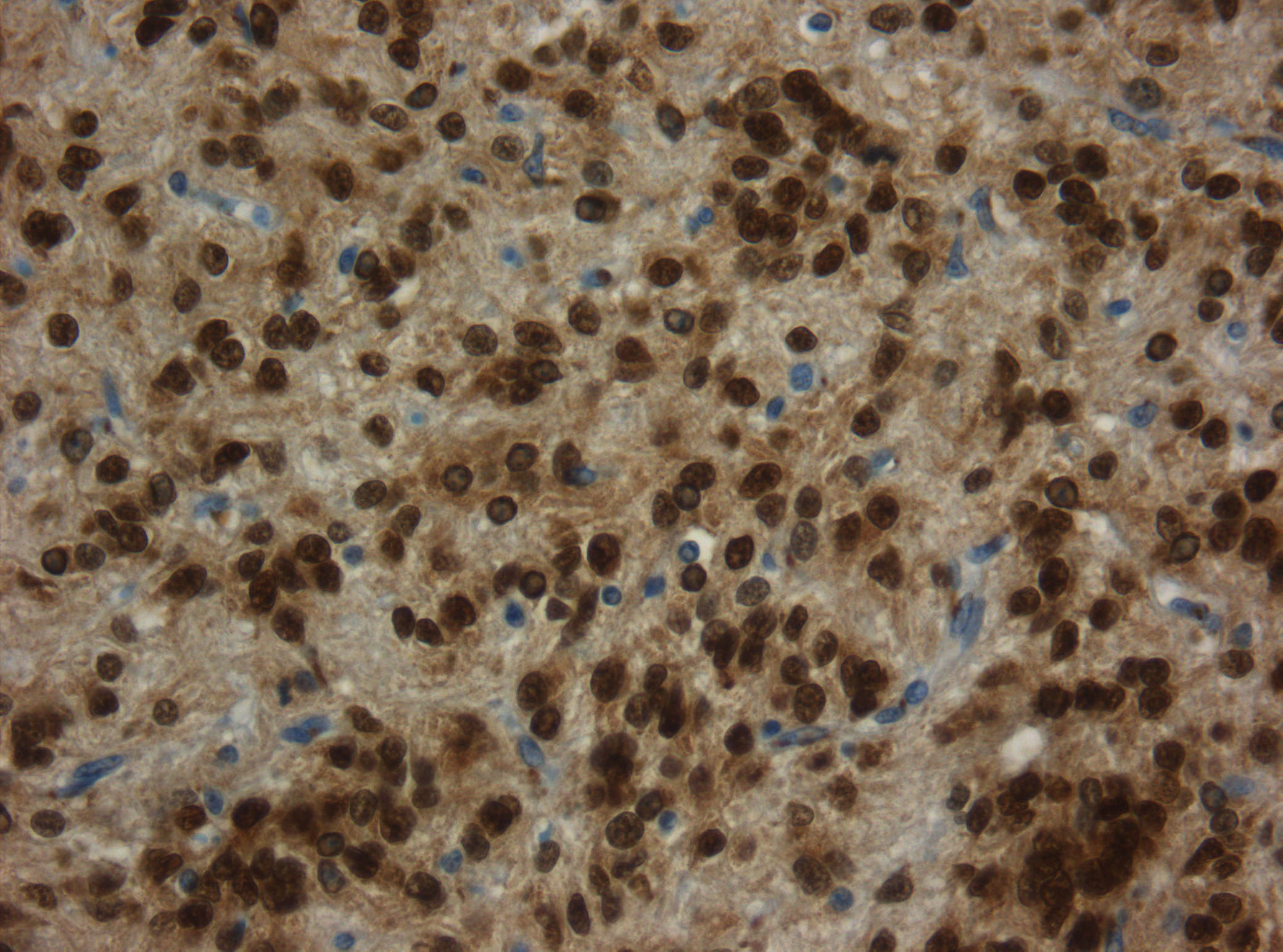 Histopathology of Neurocytoma. Immunohistochemistry for NeuN showing neuronal differentiation of tumor cells.